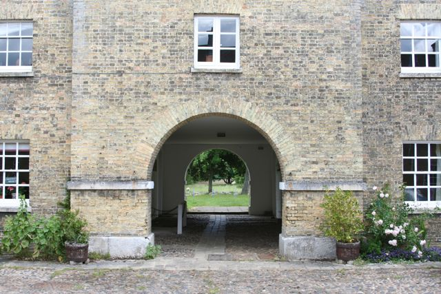 Archway under the cupola at Archway House, Wandlebury The Godolphin Arabian lies buried on the left under the arch.